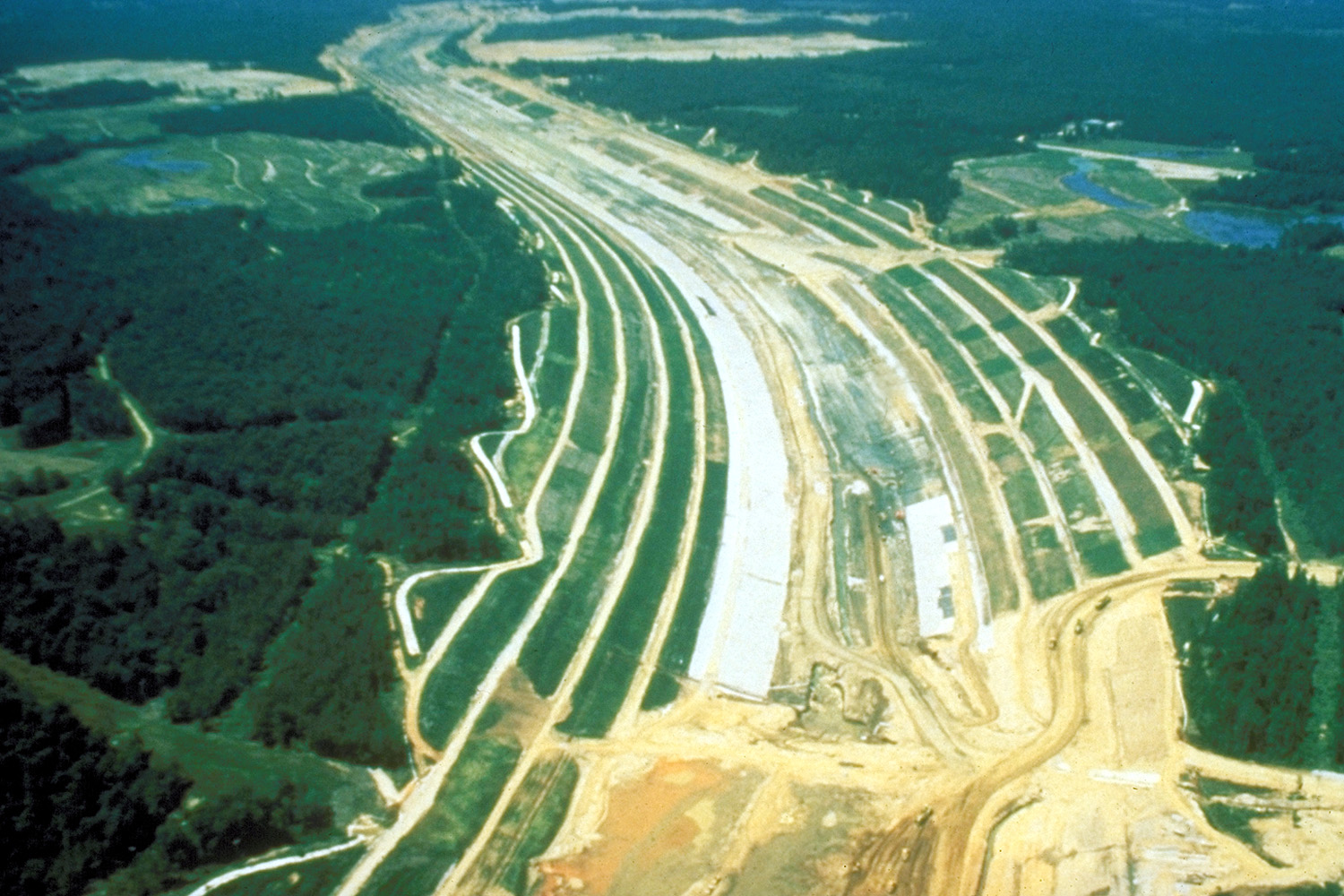 The Divide Cut on the Tennessee-Tombigbee Waterway, under construction in the early 1980s. This 39-mile (63 km) cut opened a navigation channel between the Tennessee River system and the Tombigbee River system and provided a waterborne freight channel between the Tennessee River and the Gulf of Mexico. The channel was opened in 1985.